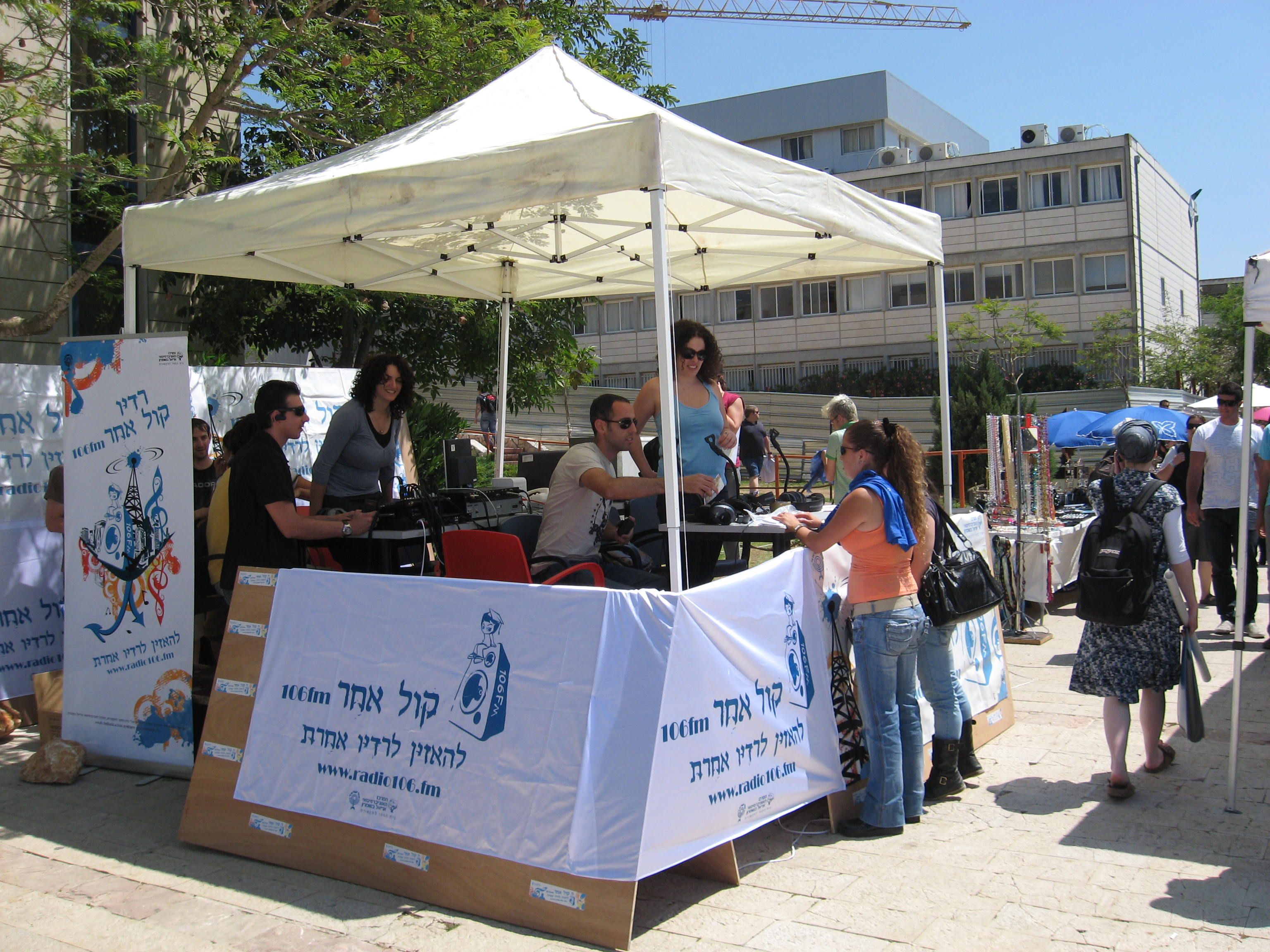 Ariel University, Campus radio and the Students